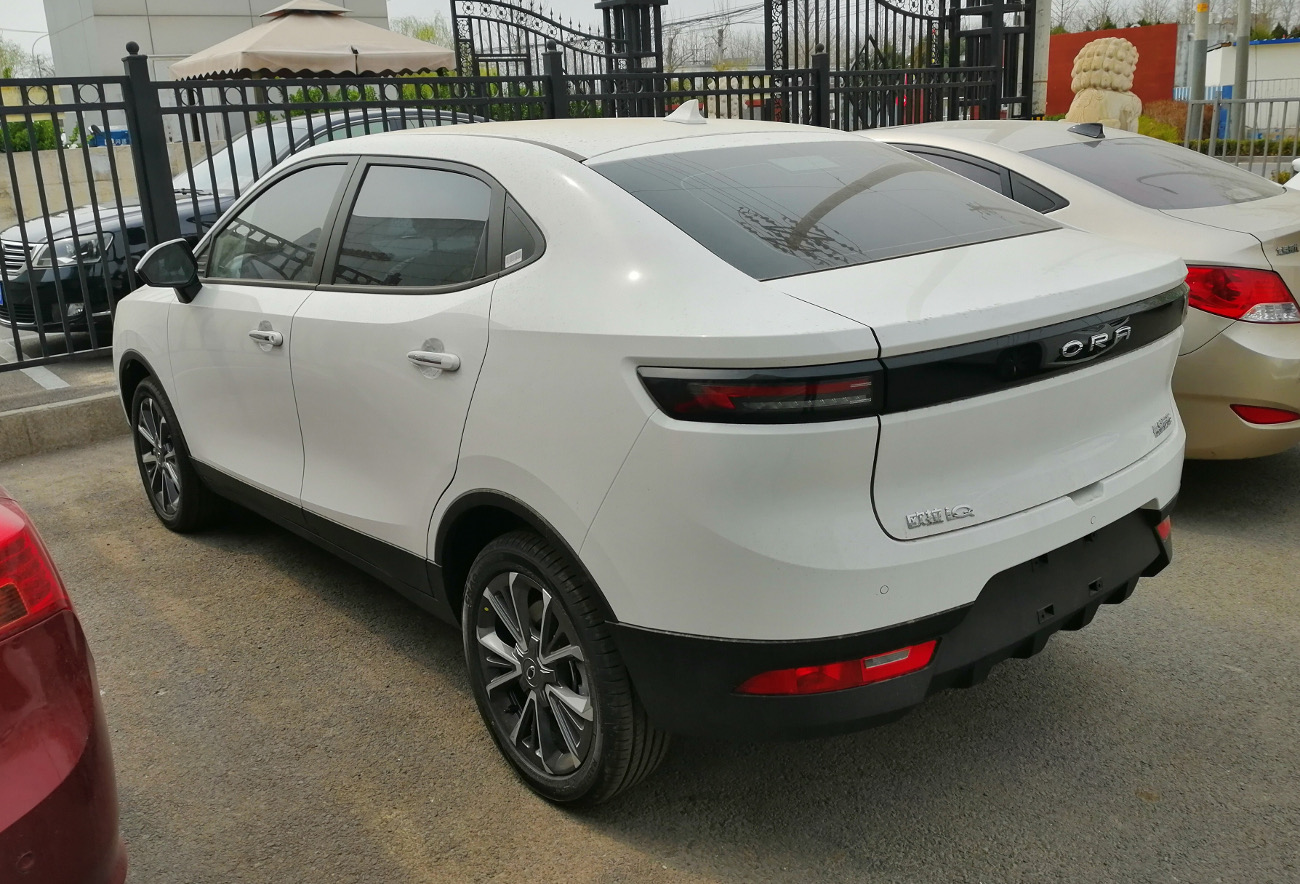 ORA iQ photographed in Beijing, China.